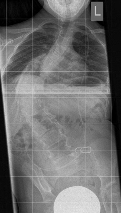 Thoracal skoliosis due to Diastematomyelia and MMC, 10 yrs old boy